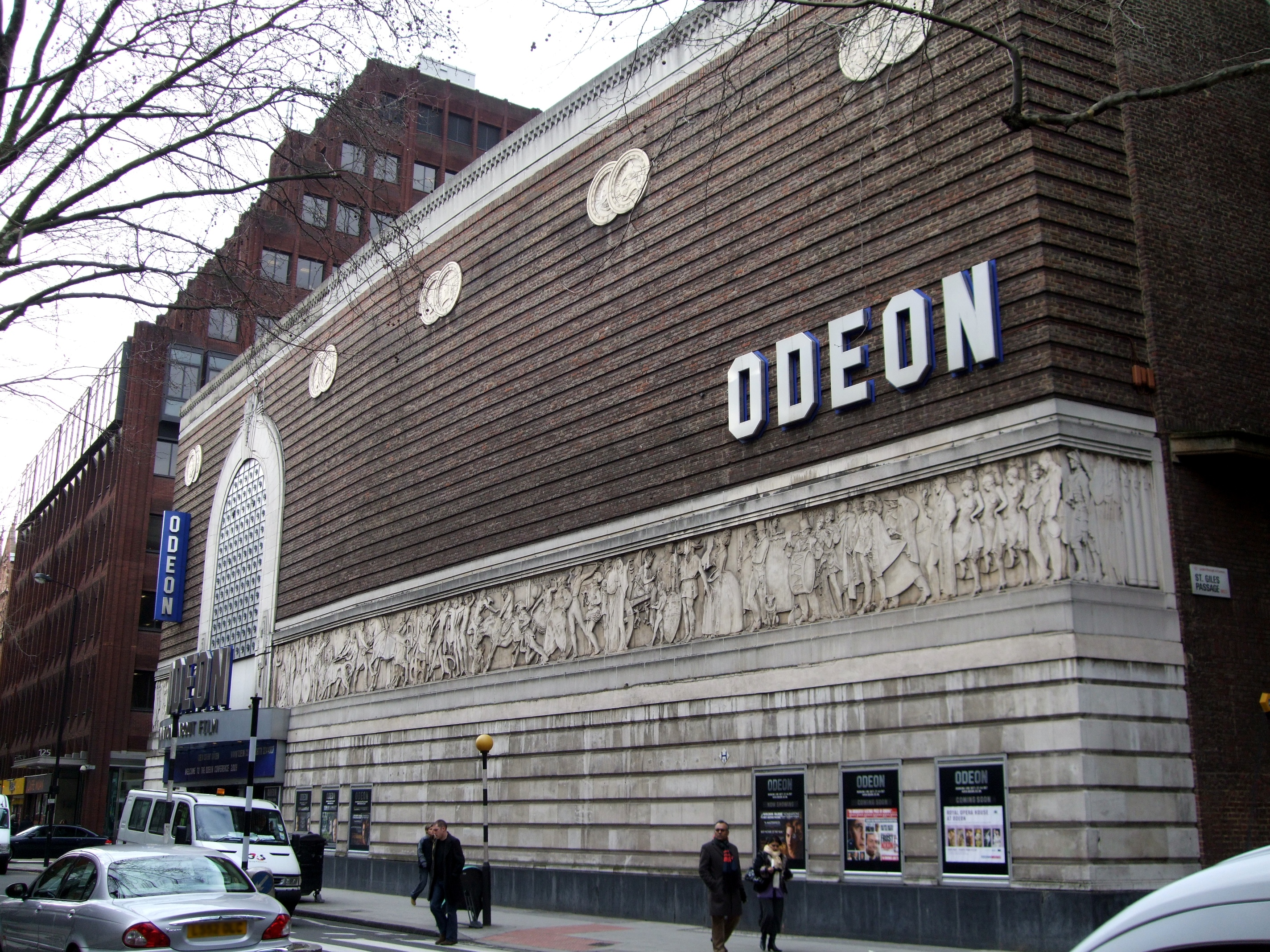 A rather grand facade for this cinema. It opened in 1931 as a theatre, but became a cinema in 1970. Address: 135 Shaftesbury Avenue. Former Name(s): ABC; MGM; Cannon; ABC Shaftesbury Avenue; Saville Theatre. Owner: Odeon (website). Links: Randomness Guide to London Cinema Treasures